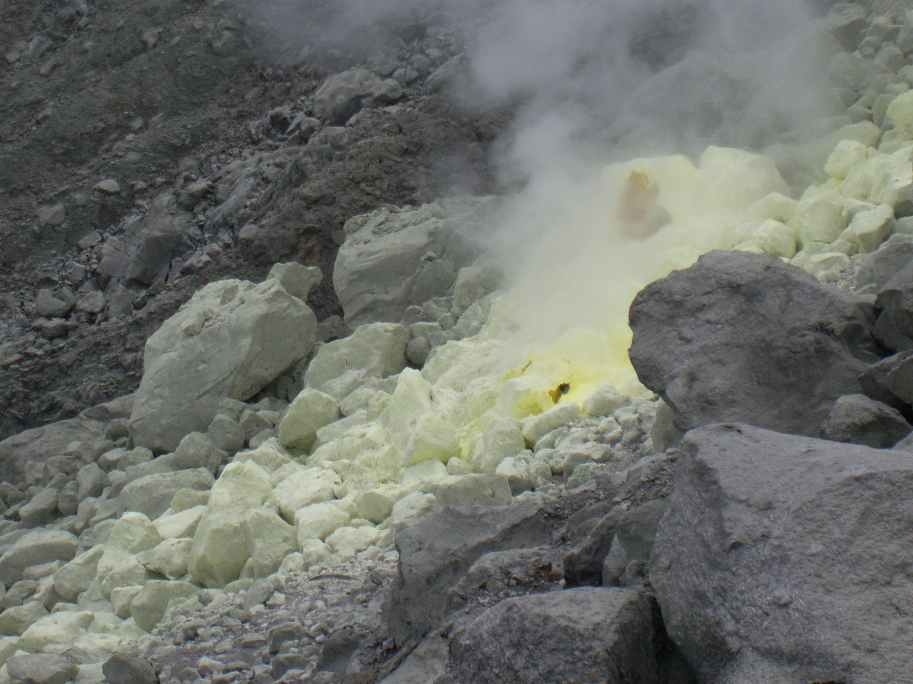 Sulfur vents on Mount Apo, Mindanao, Philippines